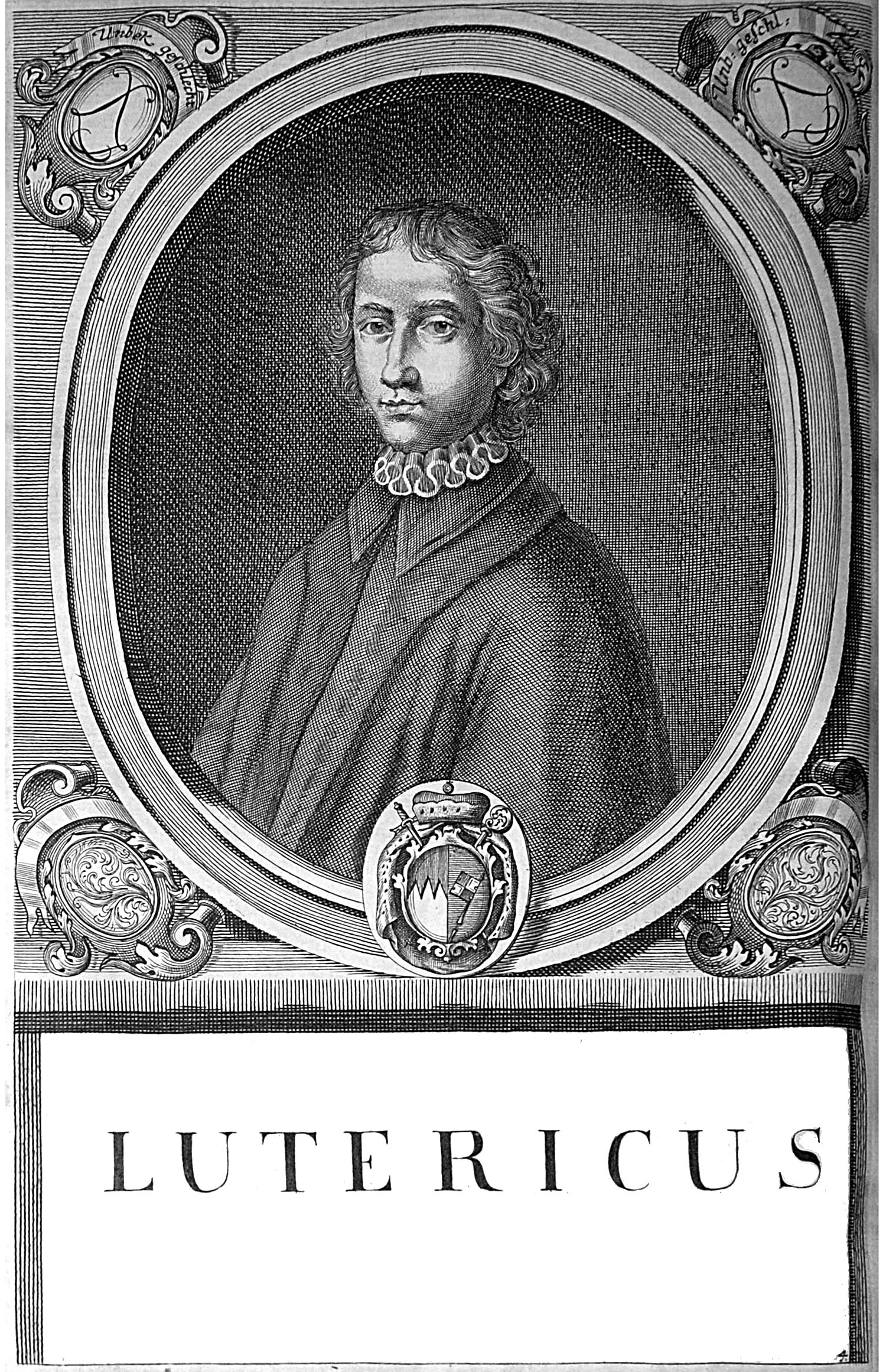 Liutrit 795 - 802 Bishop in Würzburg.